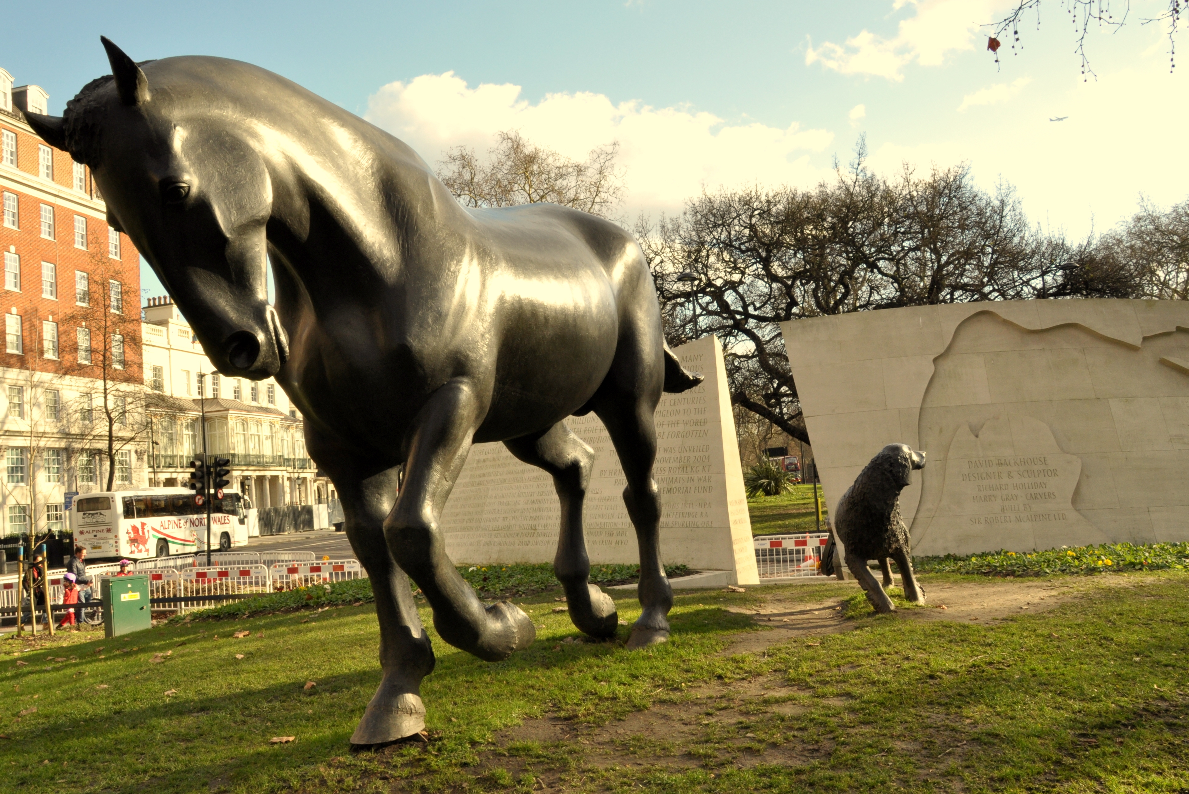 Animals in War Memorial